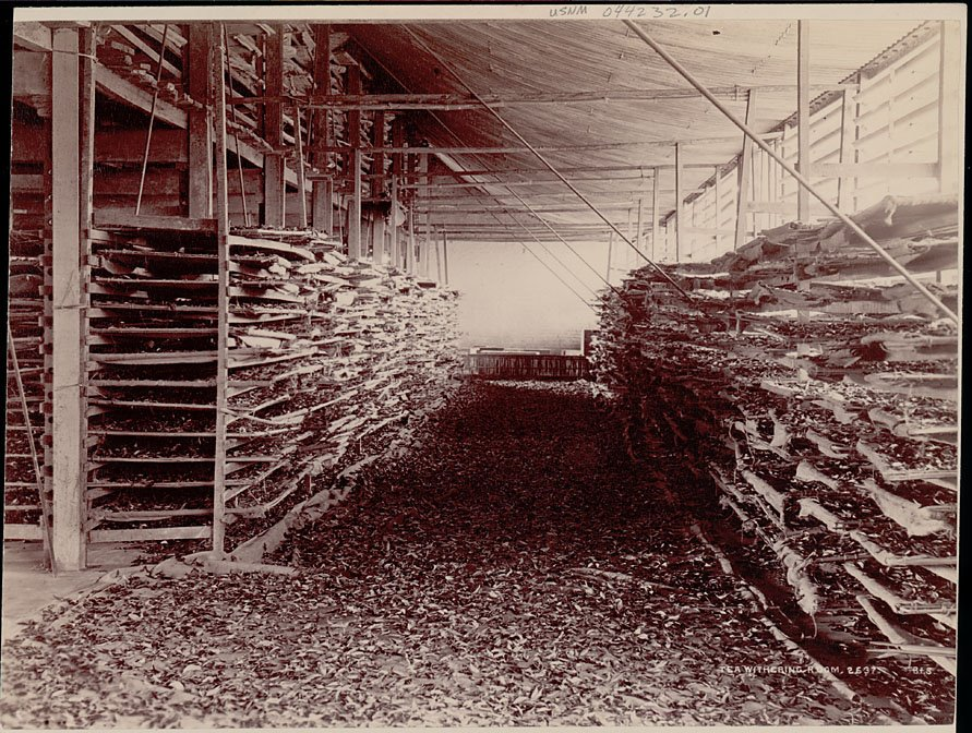 Assamese tea withering room.